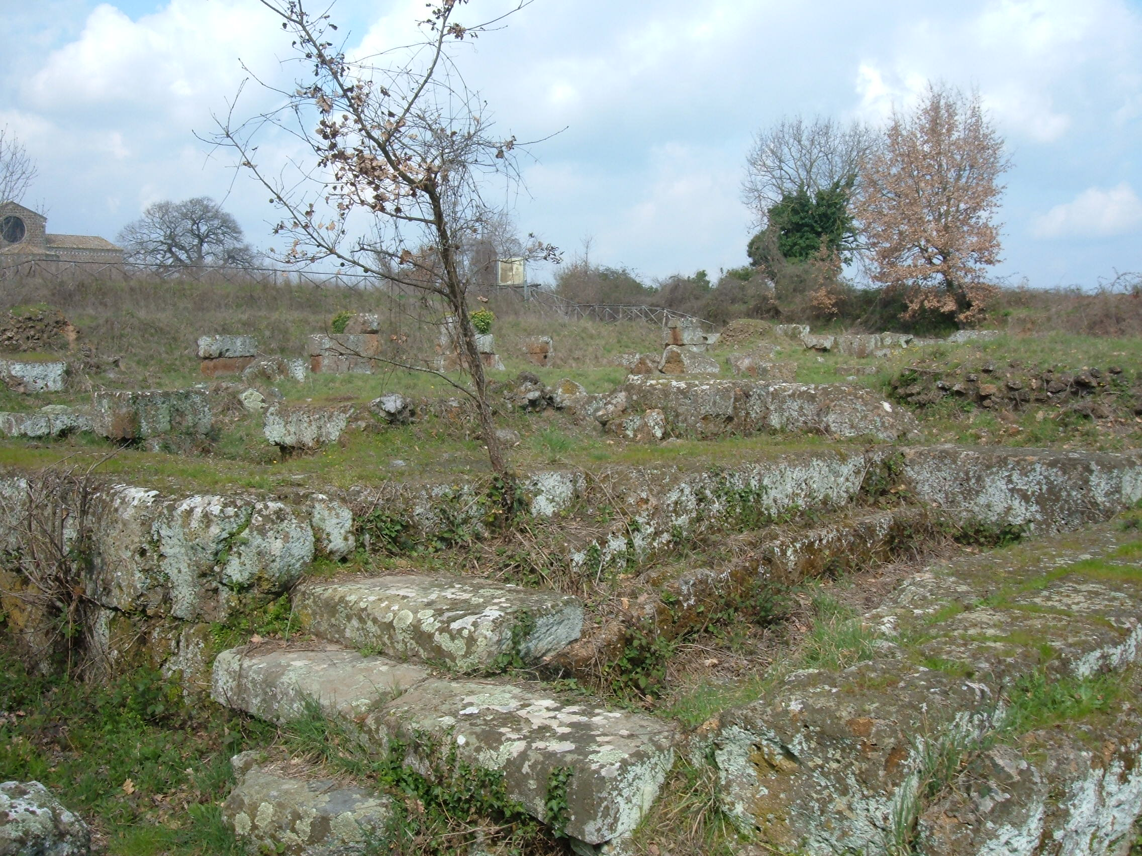 Remnants of the Theater (Falerii Novi)